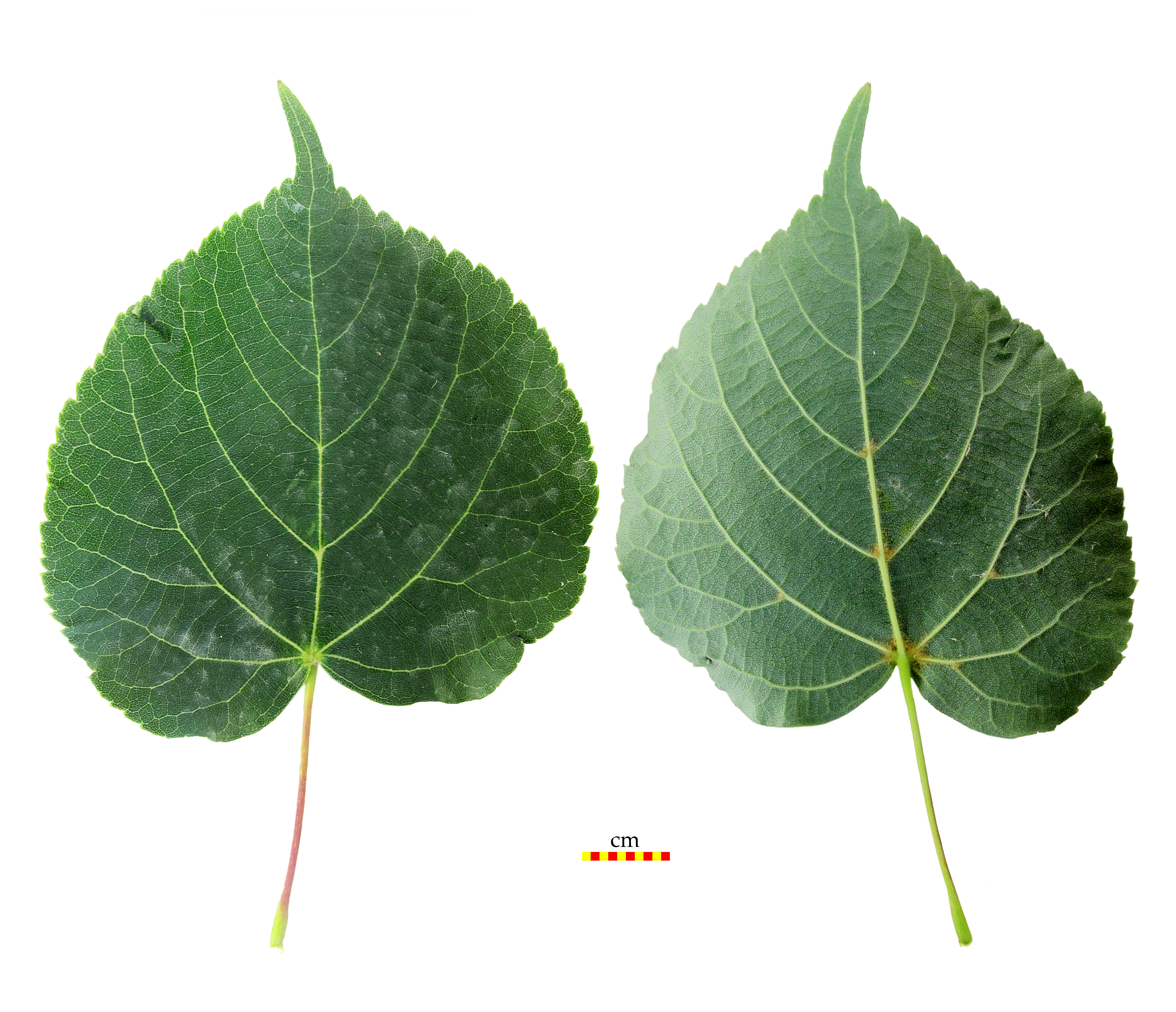 Tilia cordata leaf